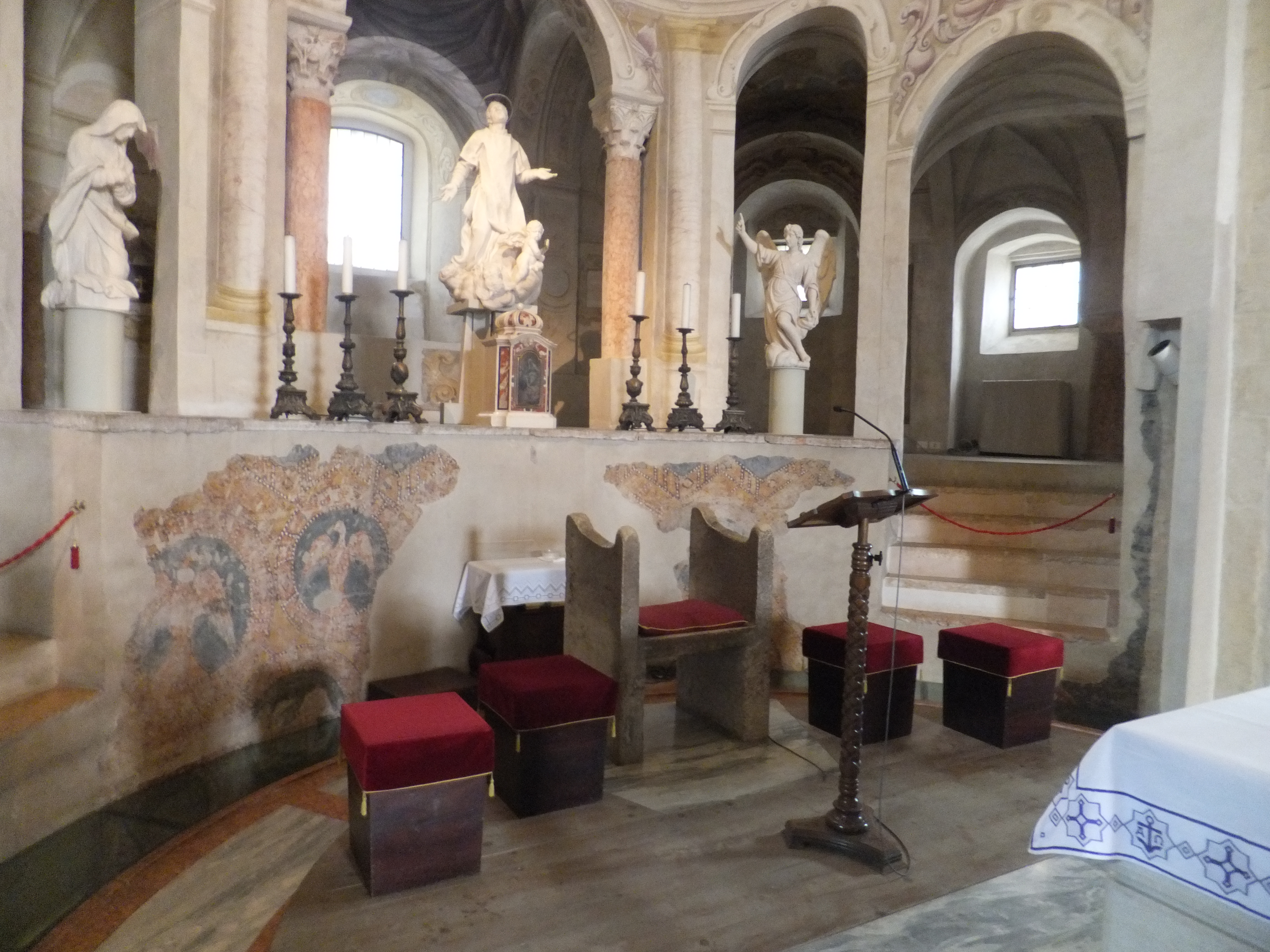 Verona, church of Saint Stephen - Cathedra